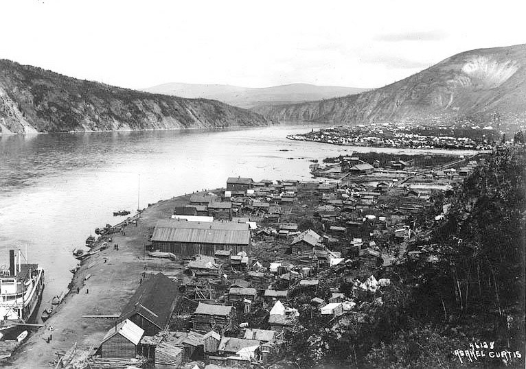 View of Dawson City, Klondike, c1899. Yukon River to the left and Klondike River at upper right.